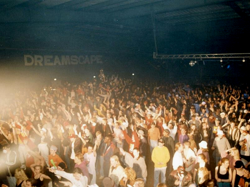 Dreamscape - Apr 1994, Milton Keynes, Sanctuary Music Arena